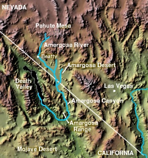 Amargosa River © 2004 Matthew Trump